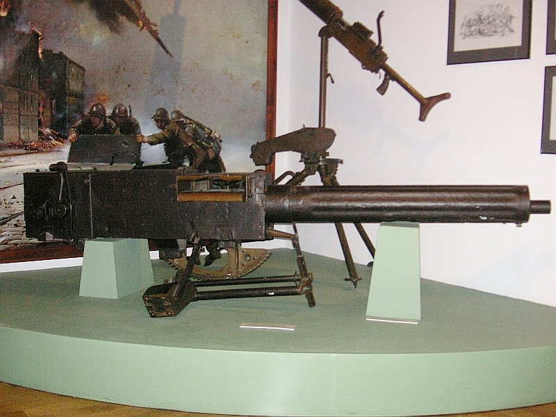 made during a summer day in Warsaw's Museum of the Polish Army; Vickers heaviest AA machine gun